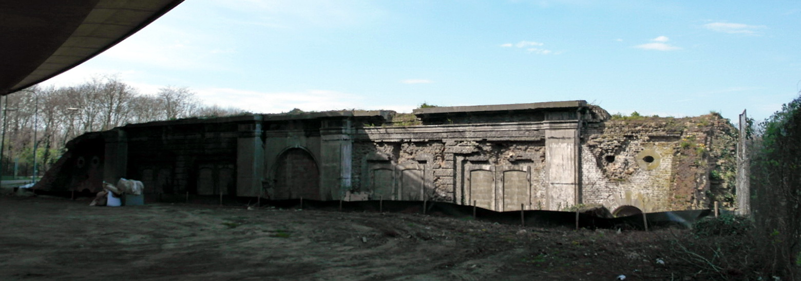 Maastricht, the Netherlands. Remnants of the Nieuwe Bossche Fronten fortifications in the north of the city. The building forms the entrance to the casemate of the largely destroyed ravelin c. The former industrial area surrounding it is being redeveloped as the slip road of the Noorderbrug (top left corner) will be diverted further north.